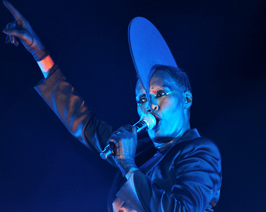 West Coast Blues N Roots Festival 2011